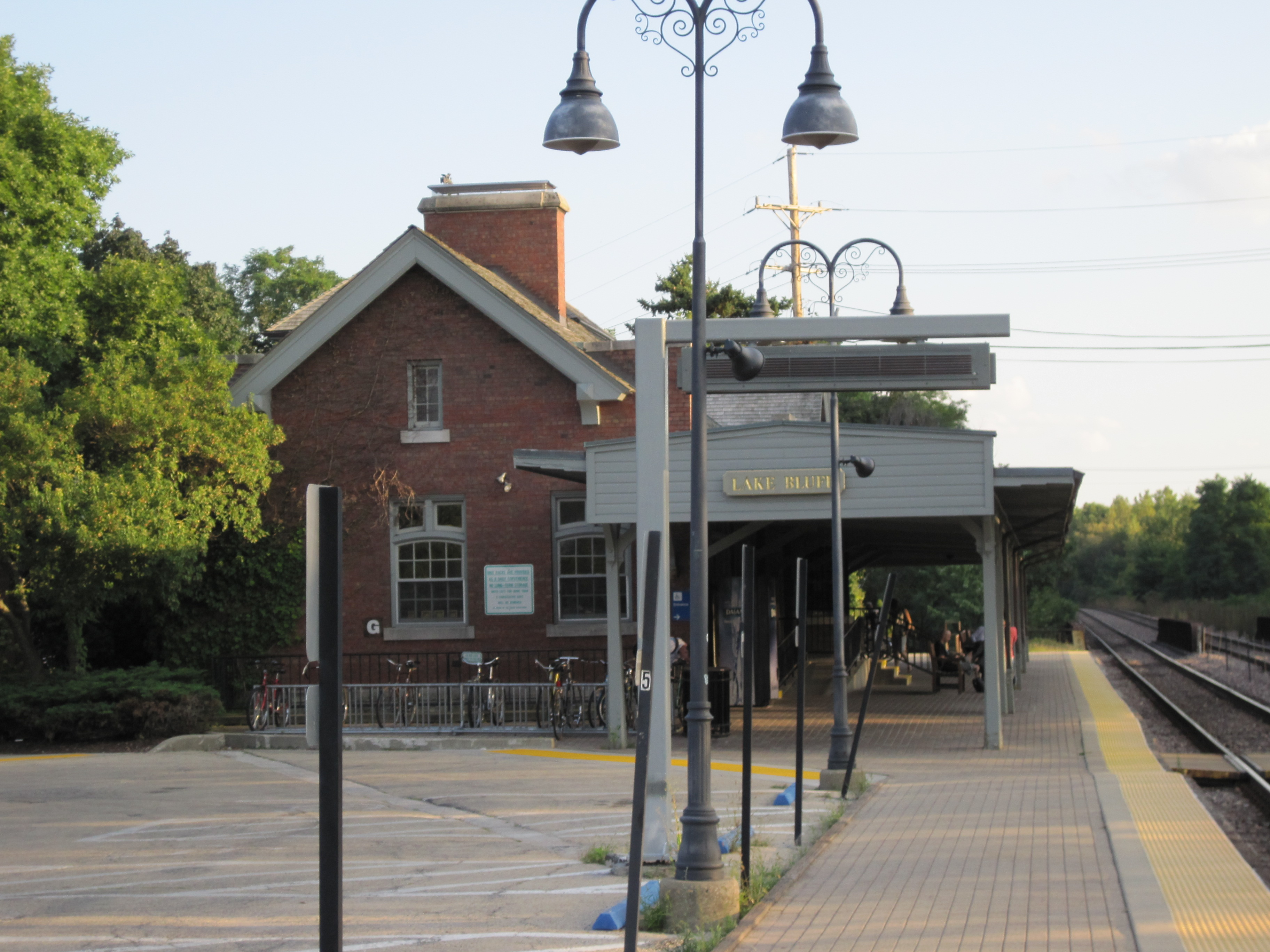 Lake Bluff Metra Station, part of the Lake Bluff Uptown Commercial Historic District, Lake Bluff, IL